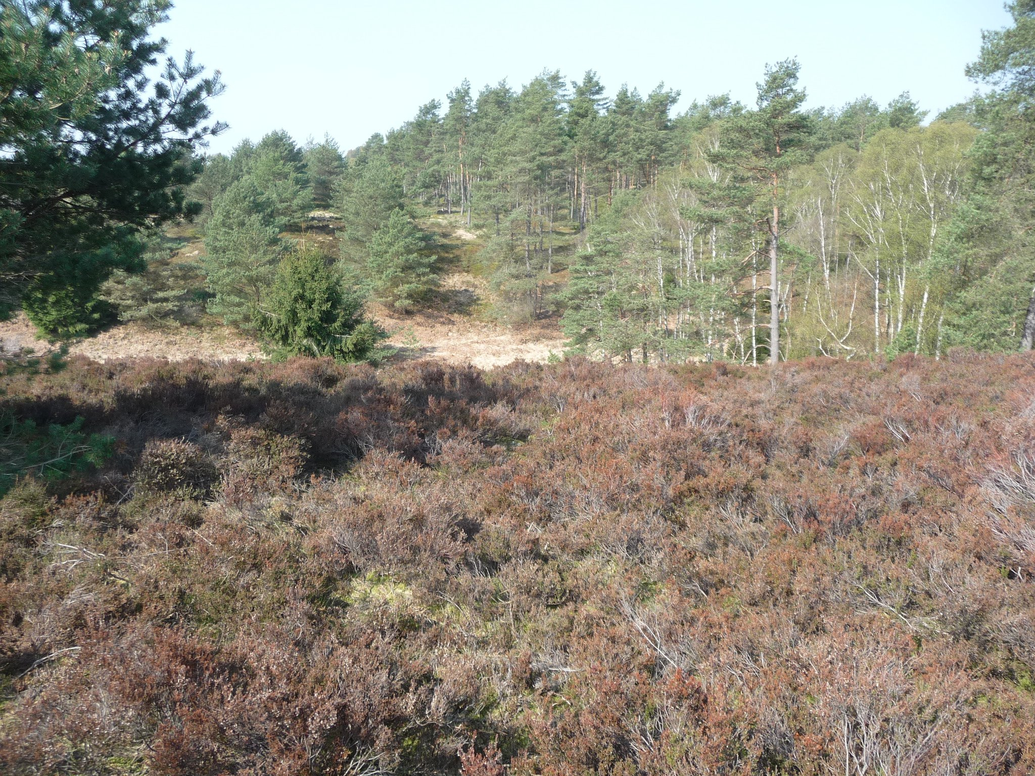 Heathland habitat, e. g. Vipera berus, Coronella austrica, Lacerta agilis, Lyrurus tetrix